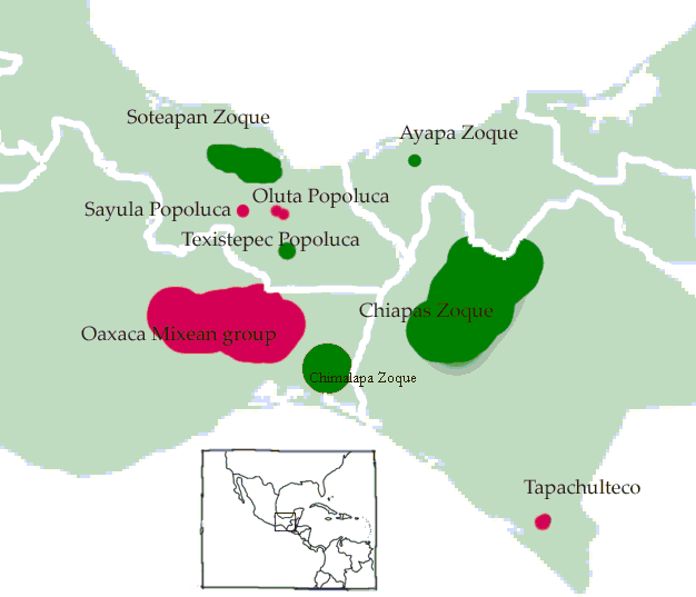 Map of the Mize-Zoquean languages location in Mexico